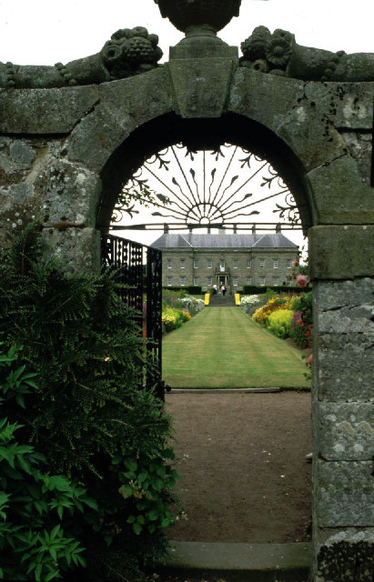 Kinross House, near Kinross, Scotland. Viewed from the east through the garden gate.